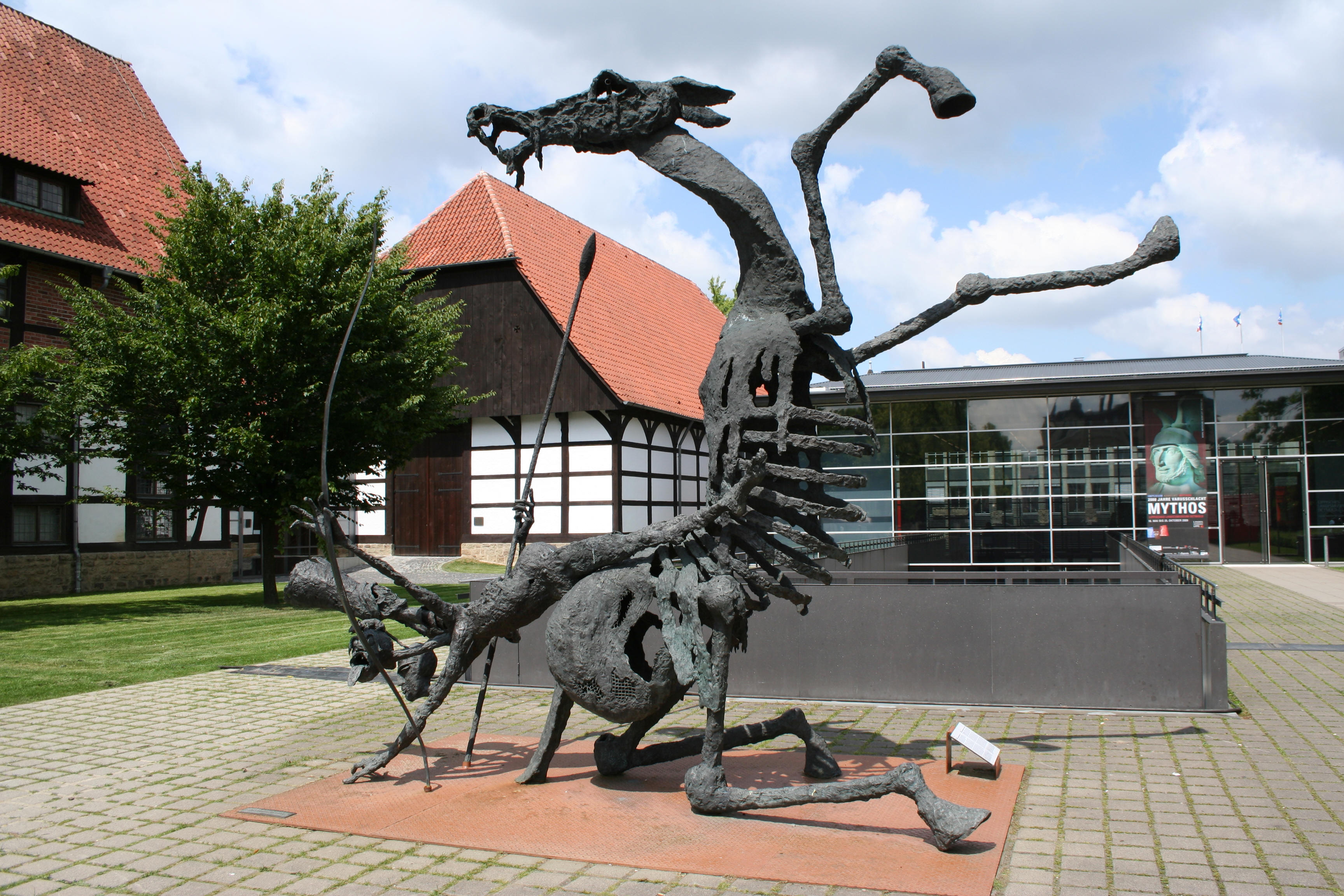 1998 sculpture Peace: The Fall of Horsemen of Apocalypse by Wilfried Koch in front of the Museum of the State of Lippe in Detmold, District of Lippe, North Rhine-Westphalia, Germany.